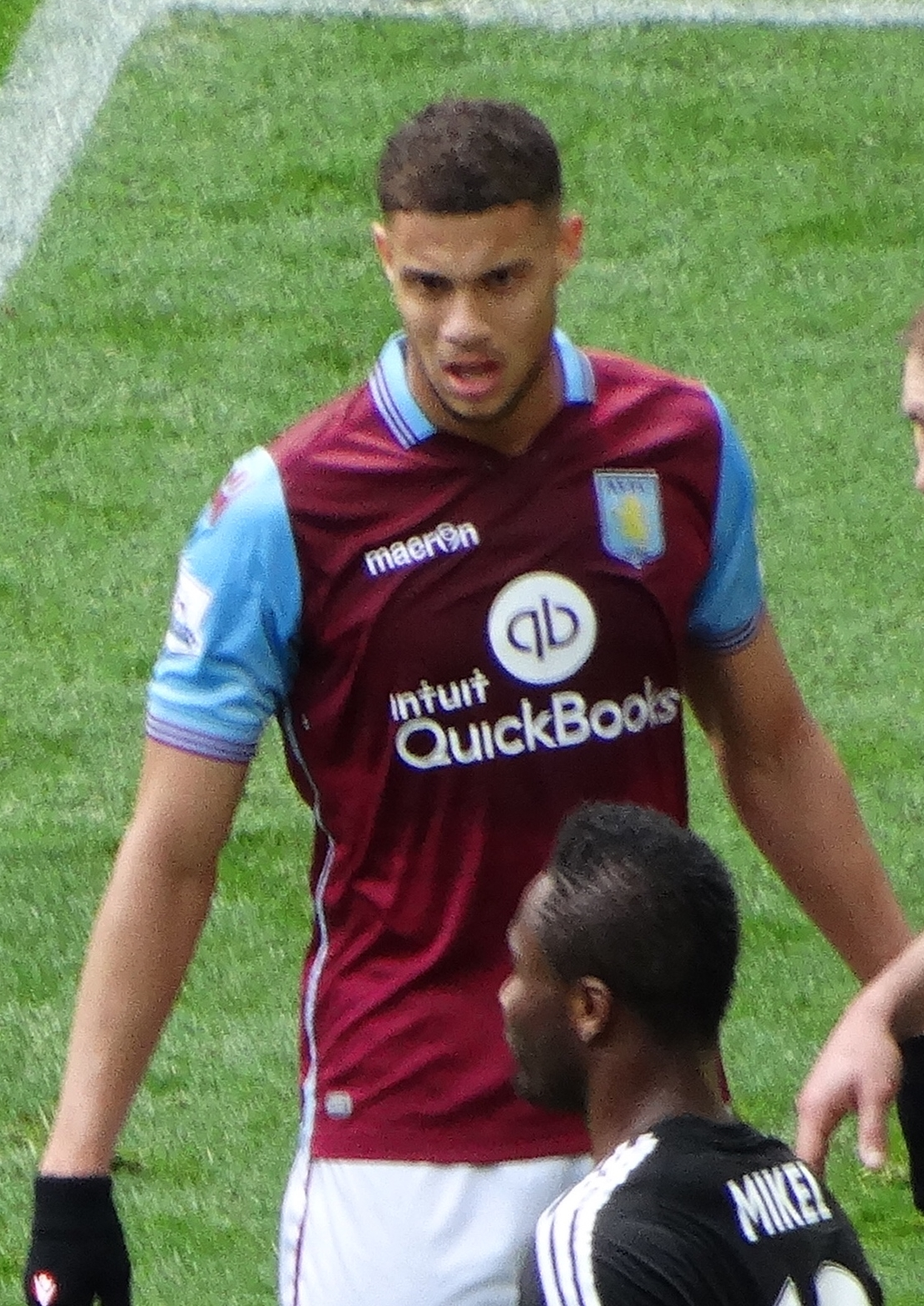 Rudy Gestede playing for Aston Villa against Chelsea at Stamford Bridge, Fulham on 2 April 2016